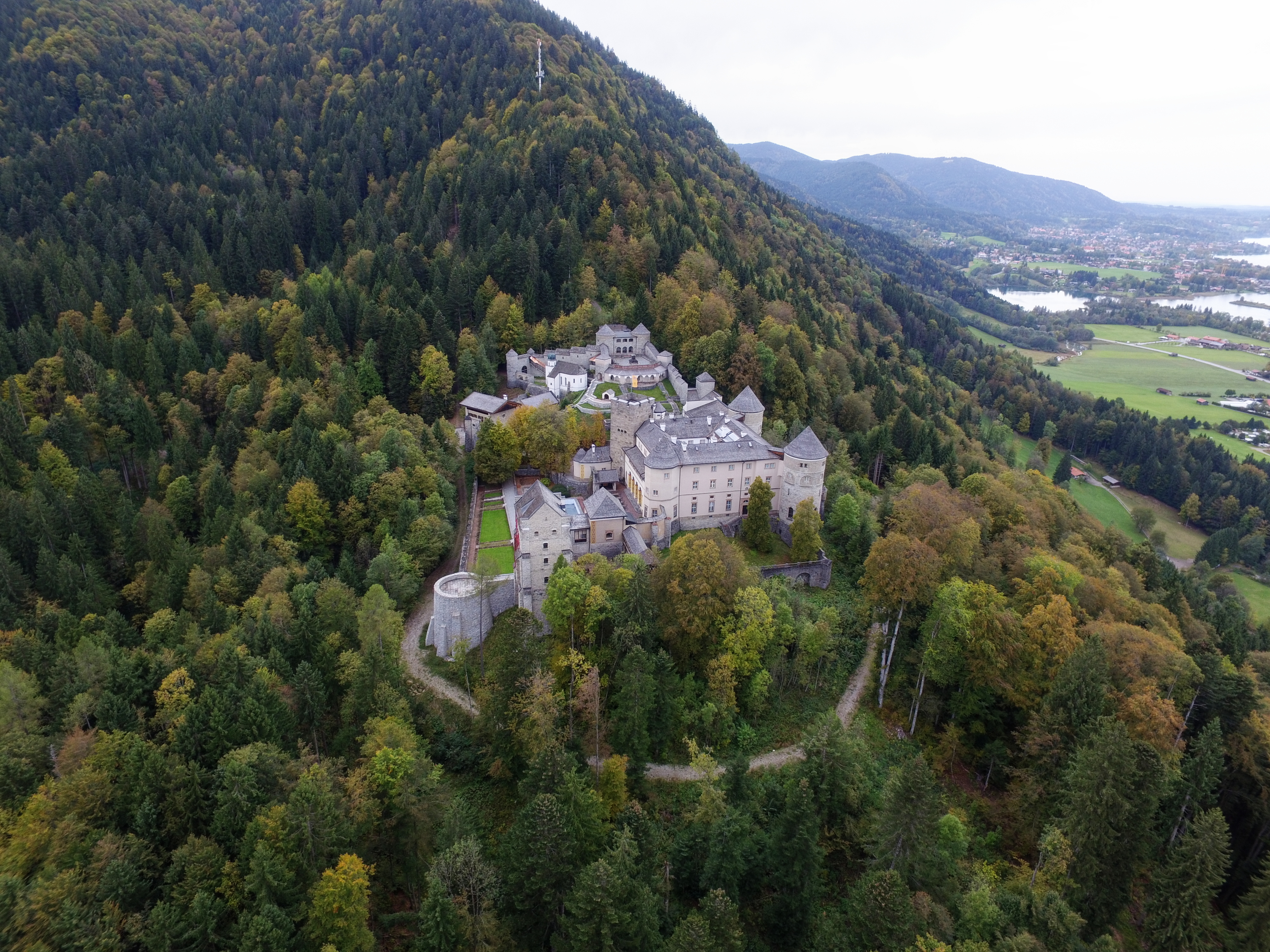 Schloss Ringberg (Ringberg Castle) aerial view with Ringspitz mountain in the background.